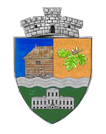 Coat of arms of Moara Vlăsiei commune, Ilfov County, Romania